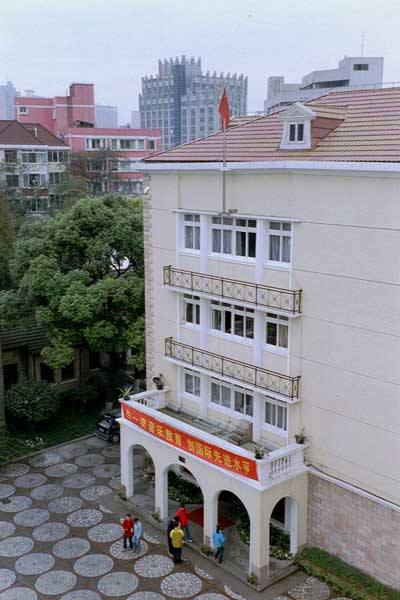 Shanghai Conservatory of Music, the picture is music middle school affiliated to shanghai conservatory